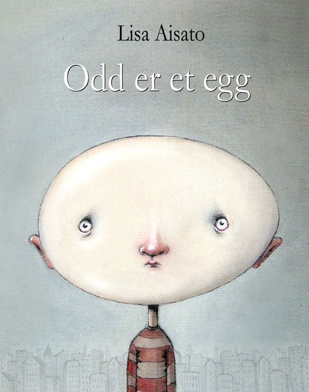 Front cover of the Norwegian children's book «Odd er et egg» (=Odd is an egg; Odd is a Norwegian boy's name). Both text and illustrations are by the Norwegian artist Lisa Aisato N'jie Solberg